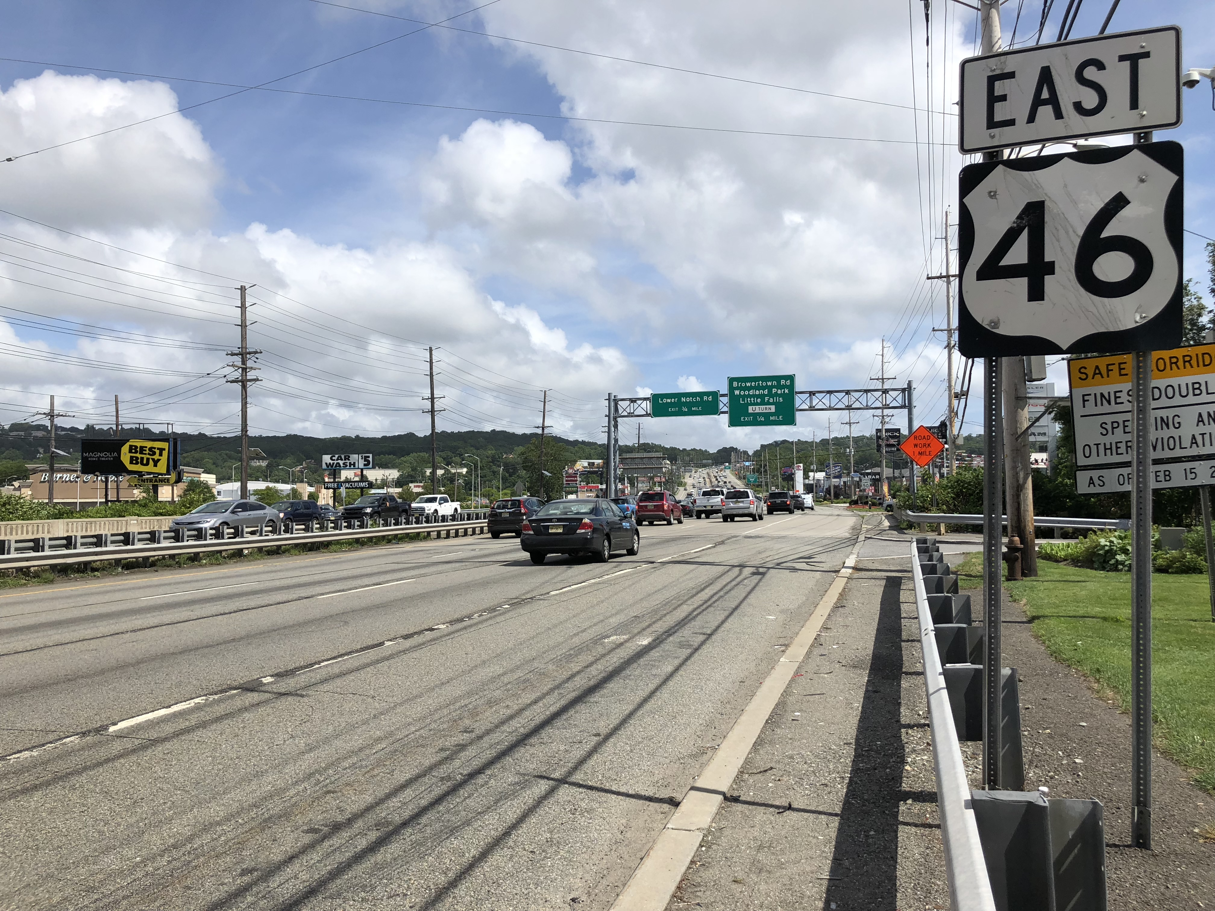 View east along U.S. Route 46 between Passaic County Route 639 (Paterson Avenue) and Passaic County Route 635 (Bowertown Road) in Little Falls Township, Passaic County, New Jersey